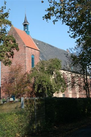 Reformed Church of Emden-Larrelt, East Frisia, Germany